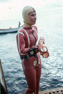 Luciana Civico pronta per la immersione del record di profondità a bordo della nave Proteo della Marina Militare Italiana 11 NOVEMBRE 1962 nelle vicinanze di Capo Miseno, nel golfo di Pozzuoli. Prima donna a salire su una nave Marina Militare Italiana in navigazione.